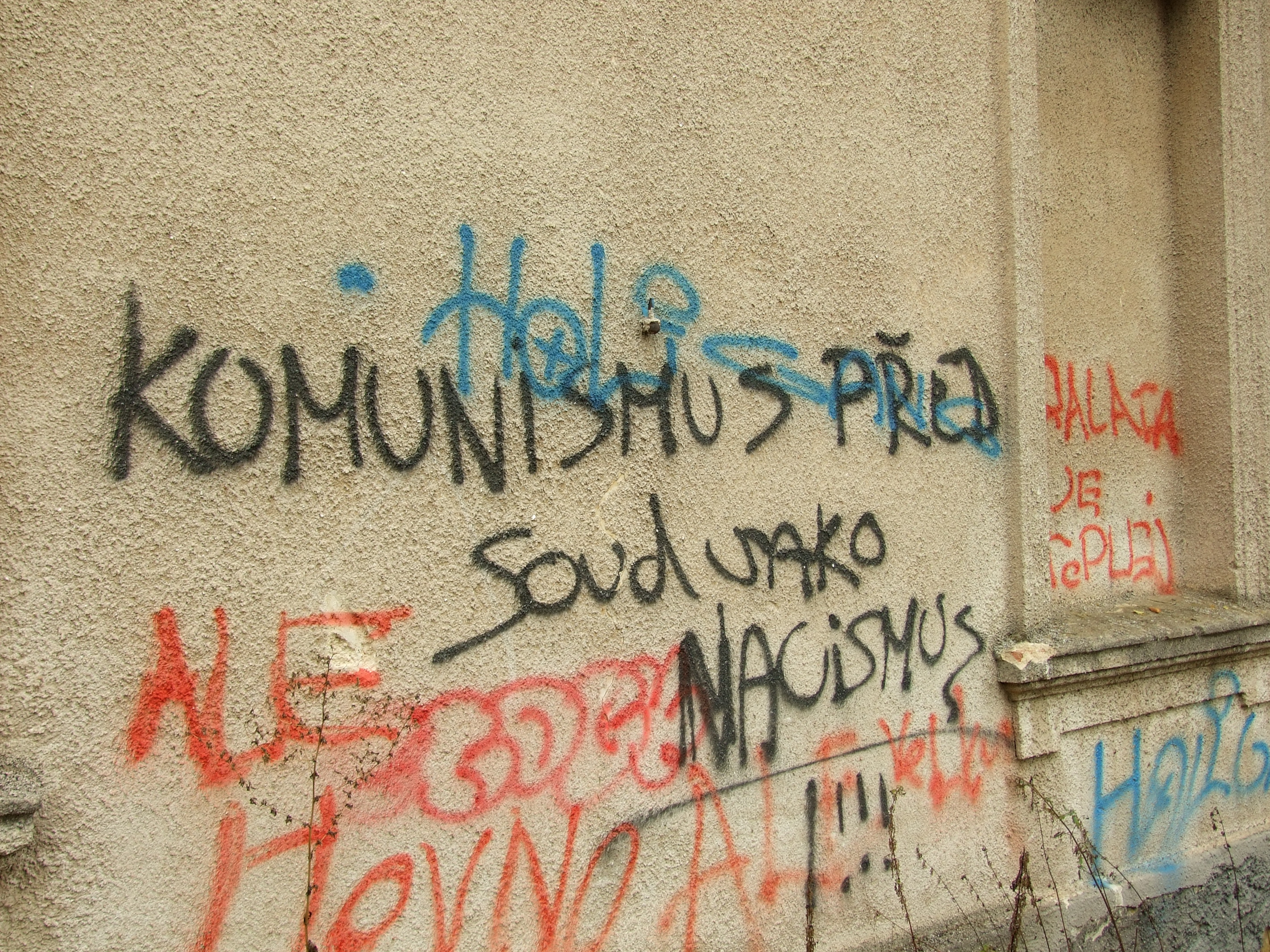 Anticommunism sign in Prague-Klánovice, Prague, CZ